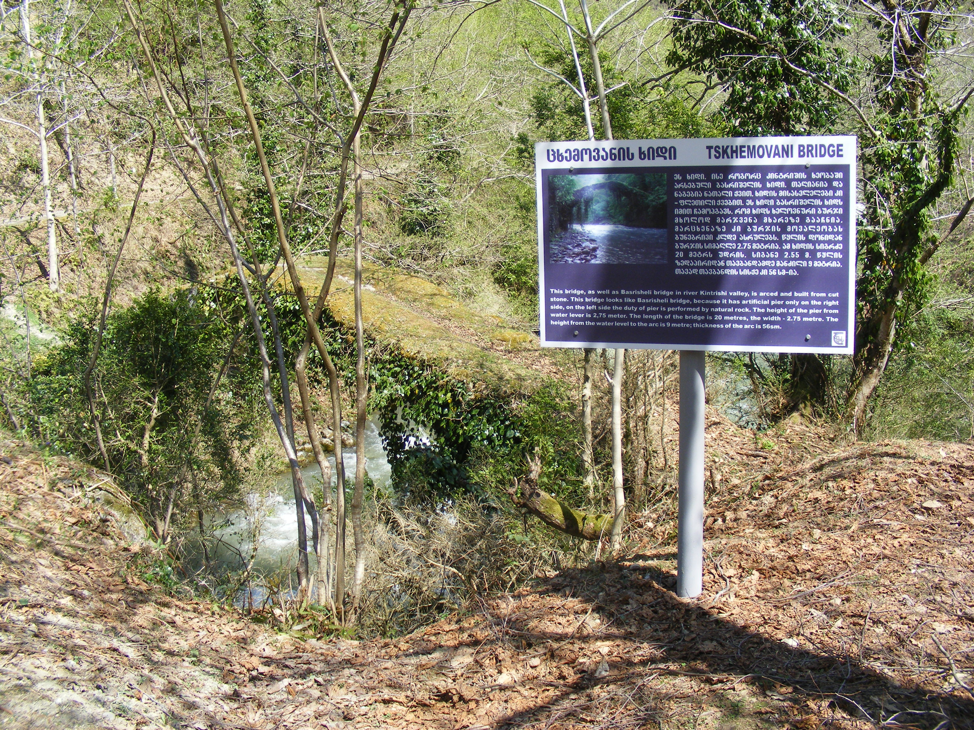 Arced Bridge in Kintrishi Protected Areas